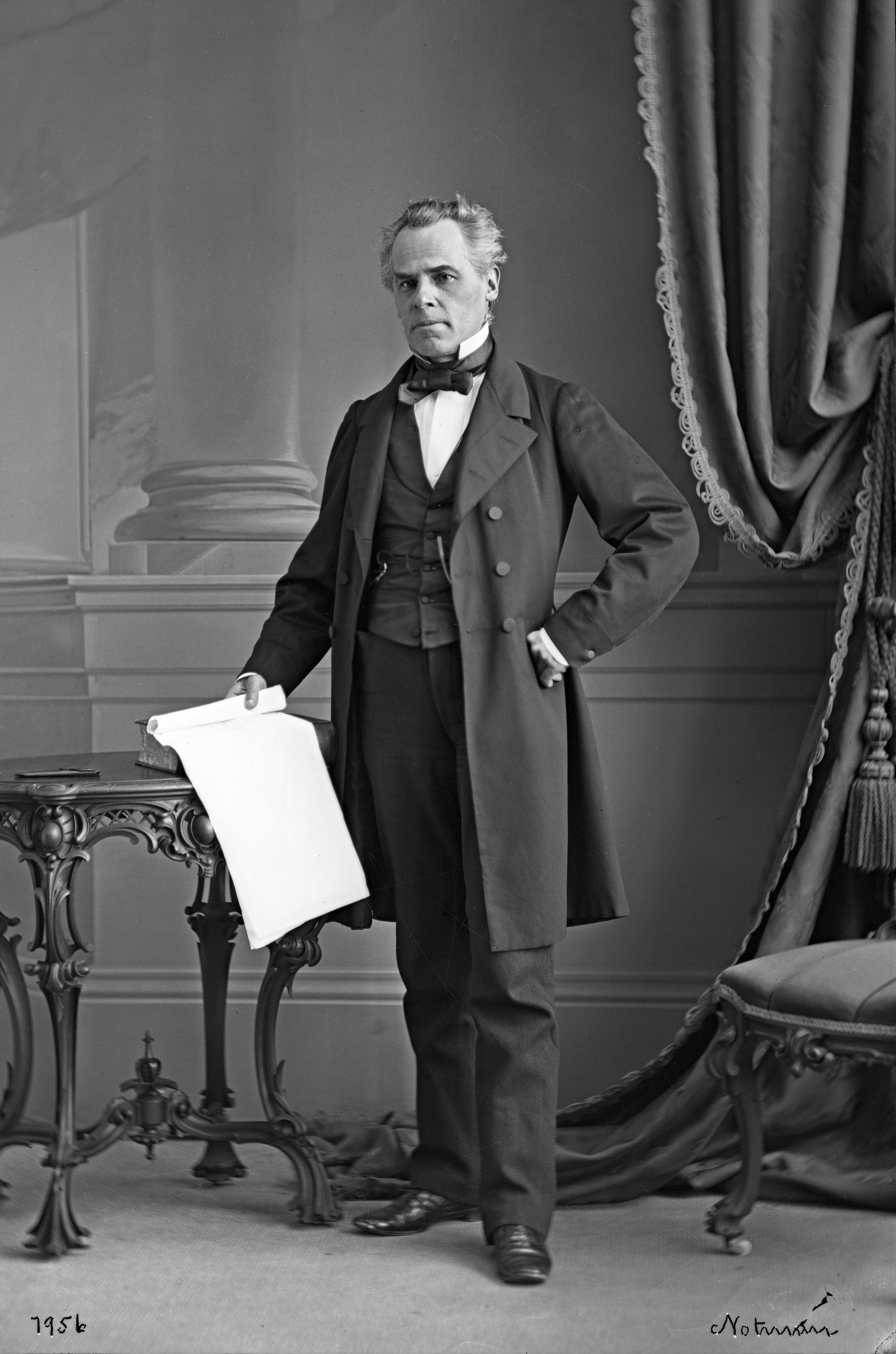 Photograph of Hon. George Etienne Cartier, Montreal, QC, 1863 - Silver salts on glass - Wet collodion process